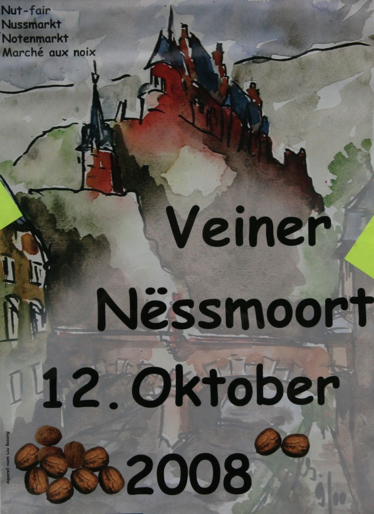 Photo of the poster of the 2008 edition of the nut fair in Vianden, Luxembourg